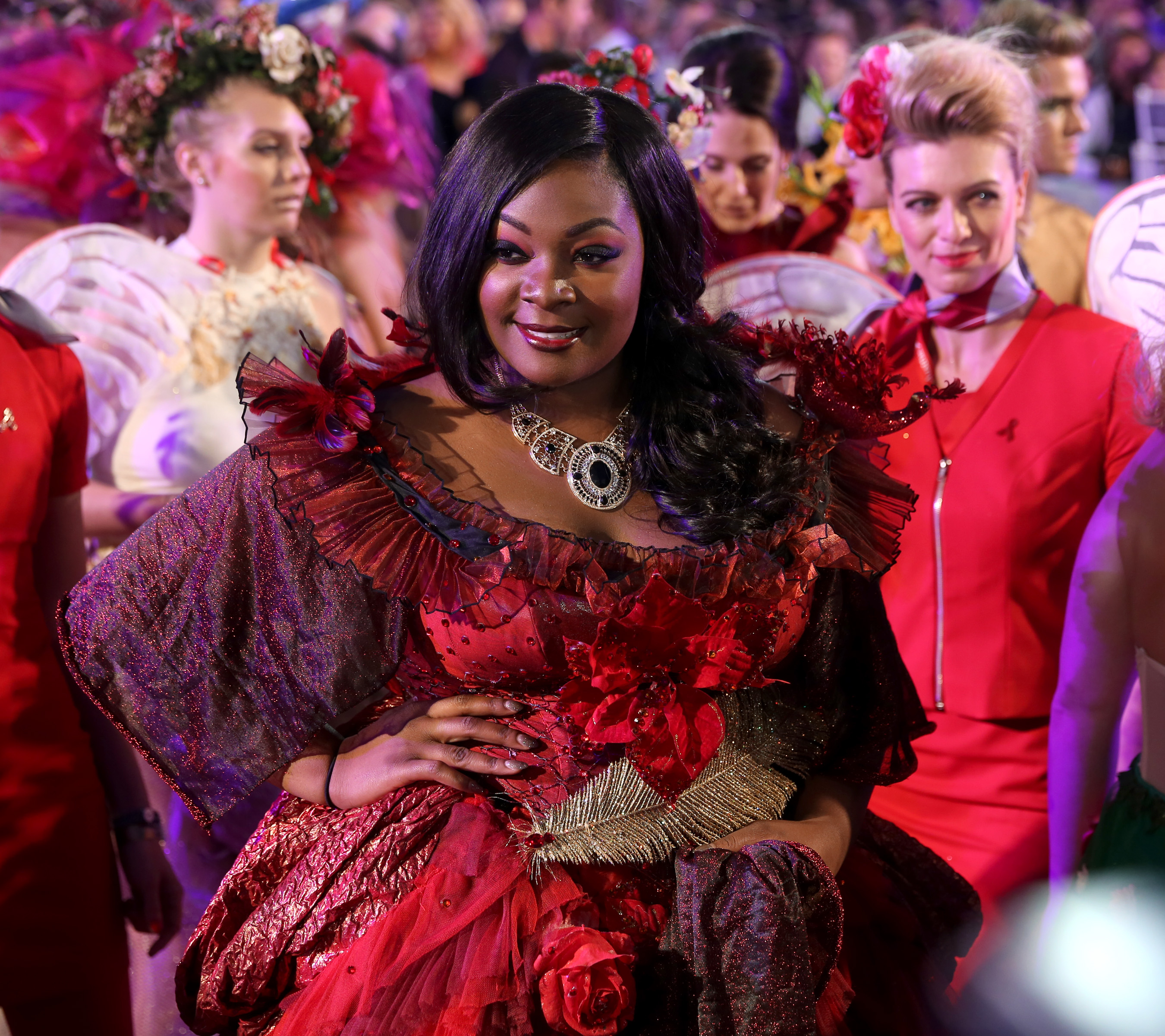 Life Ball 2014: Candice Glover on the red carpet on the square in front of the Rathaus (Town Hall) of Vienna, Austria.